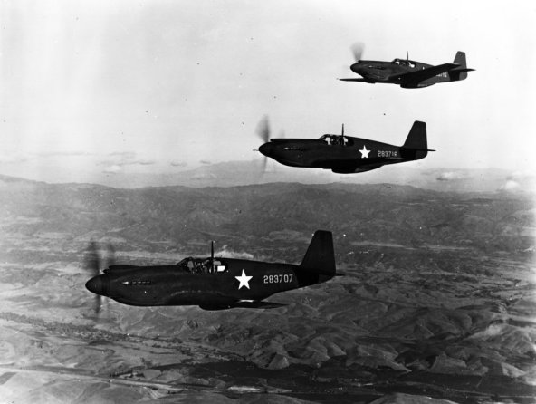 PictionID: 38280415 - Catalog:Array - Title:Array - Filename:15_002374.tif - mage from the Charles Daniels Photo Collection.----Album: Mustangs. SOURCE INSTITUTION: San Diego Air and Space Museum Archive